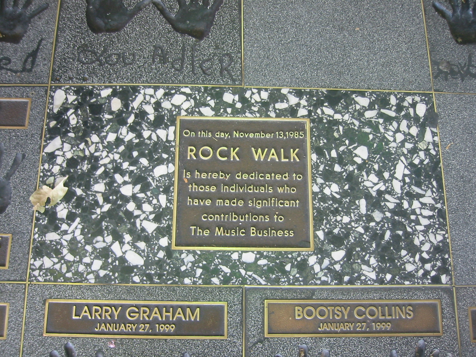 Rock Walk detail in West Hollywood, CA